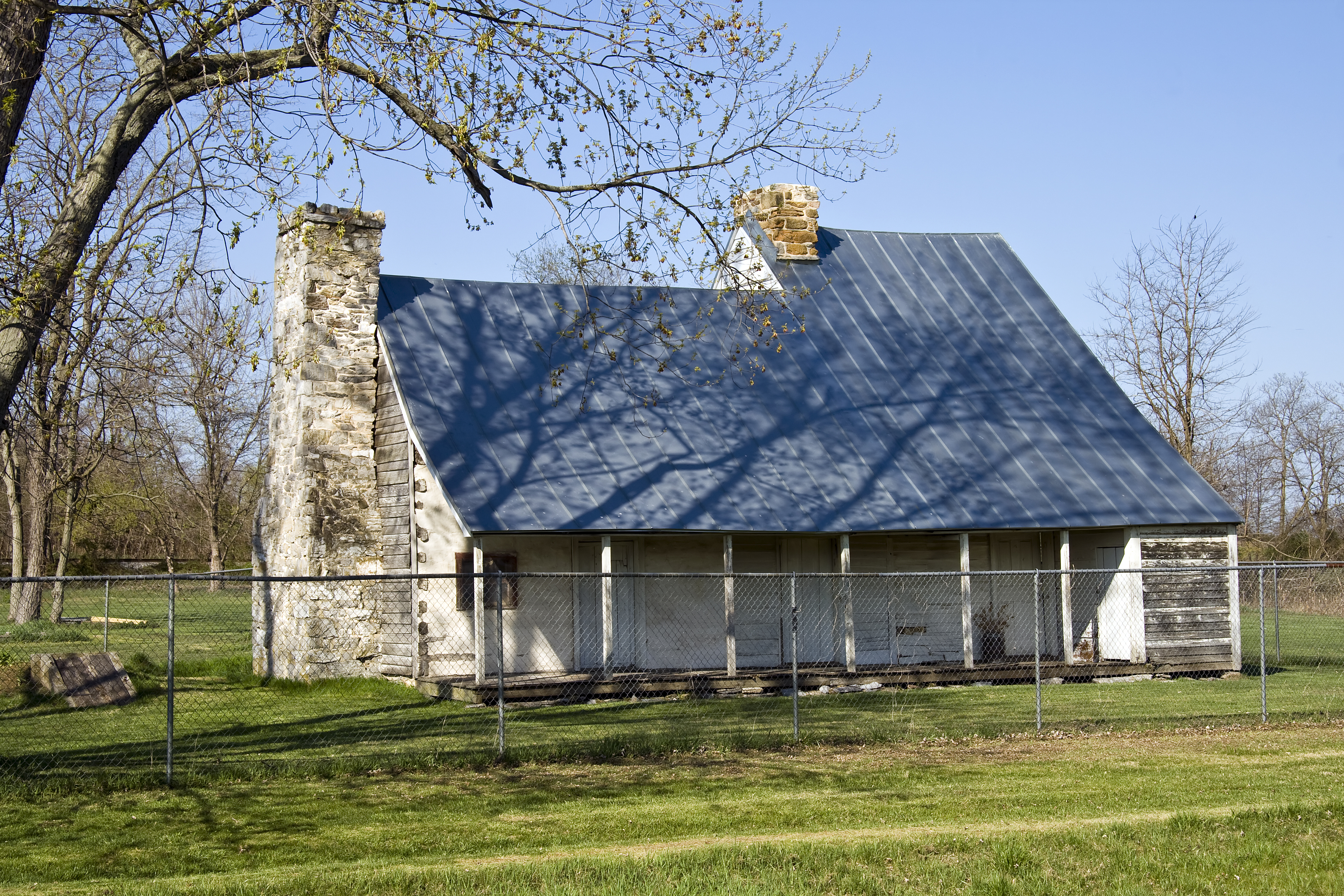 Peter Burr House, Bardane, West Virginia, USA